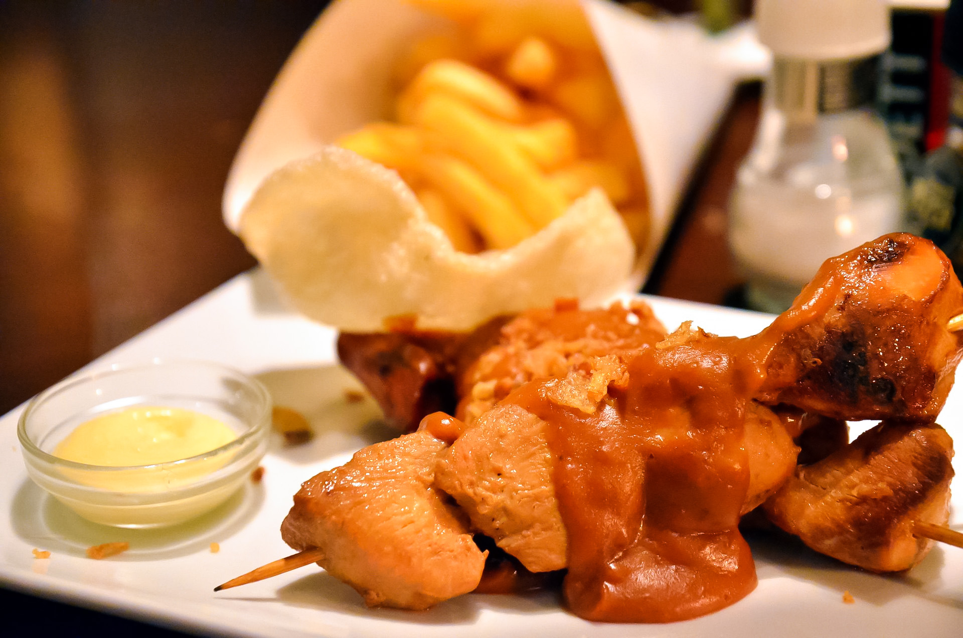 Kipsaté met friet: the Dutch pub version of chicken satay, served with peanut sauce, crispy fried onions, prawn crackers, French fries, and mayonnaise. A mixed salad was served on the side.